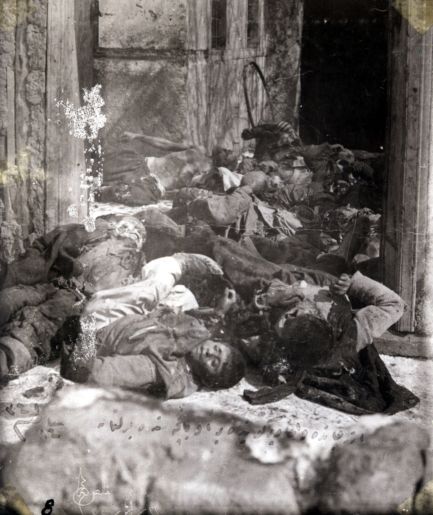 Corpses of Turkish civilians, including women, children and men in Erzincan, massacred by Armenians.